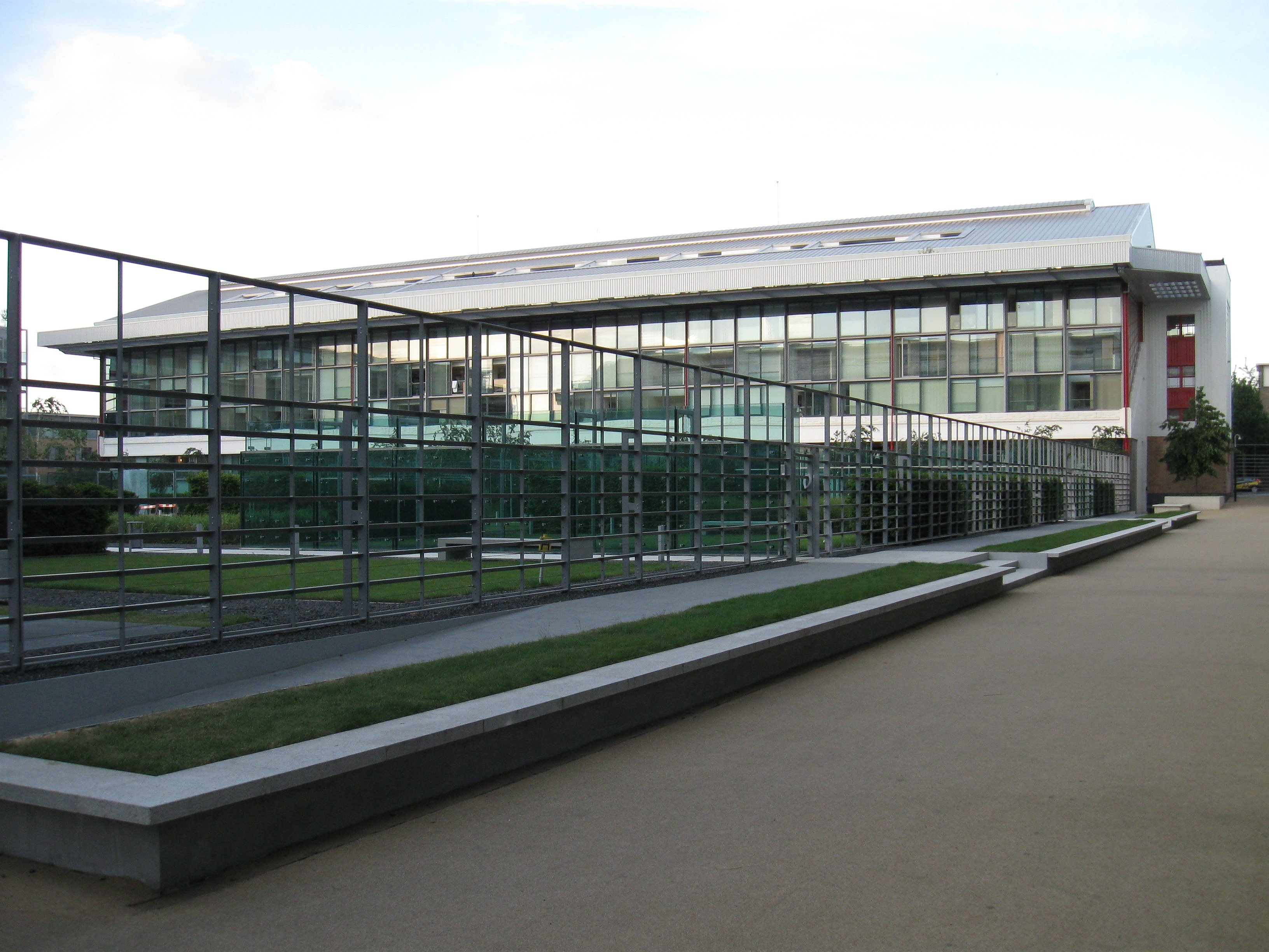 Highbury Square looking at one of the listed stands, which has been coverted into flats